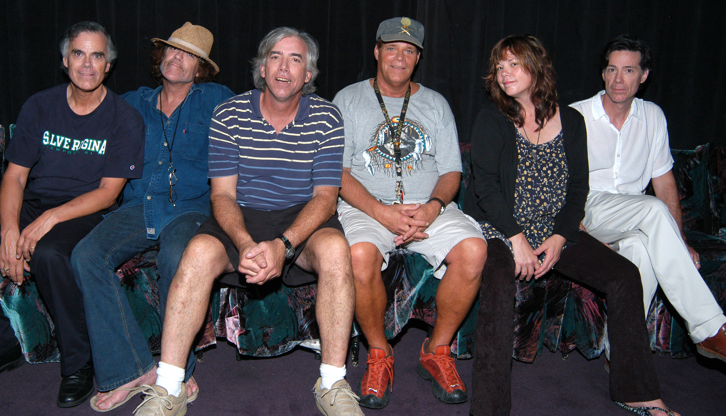 Photo by Randy Bellous. Left to right: Bob, Barry, Paul, Richard, Susan and John Cowsill, taken at a benefit held for oldest brother, Bill Cowsill at the El Rey Theatre in Los Angeles.